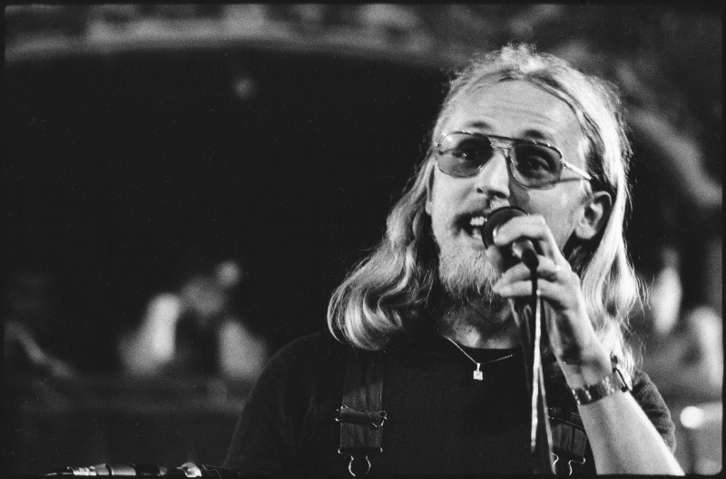 Petar Introvič (born 1951) is a Czech blues musician. Prague, Lucerna music hall, Vokalíza festival, September 1983